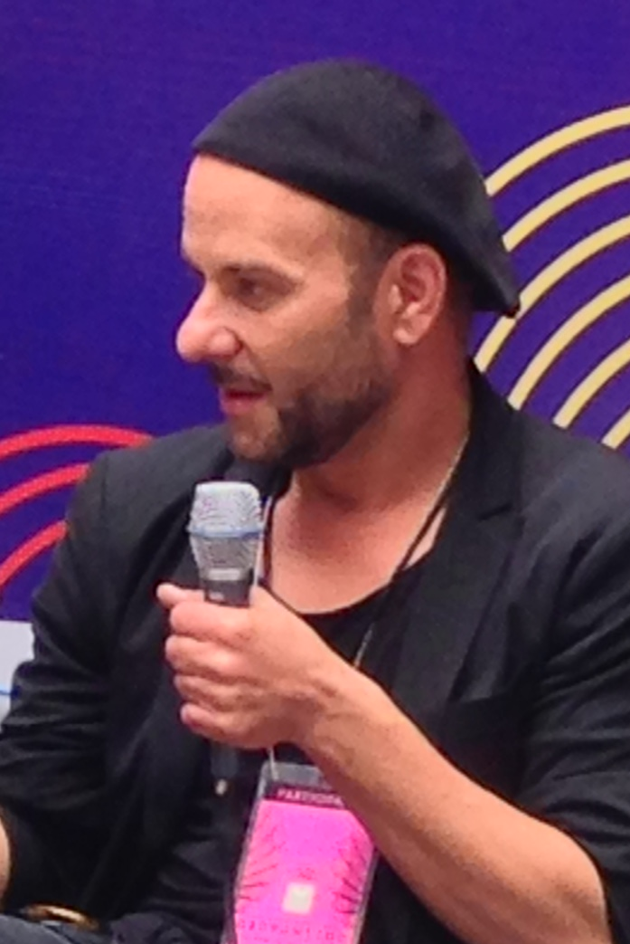 Slovenian theatre director Tomaž Pandur at Festival Internacional Cervantino press conference. Guanajuato, Mexico.